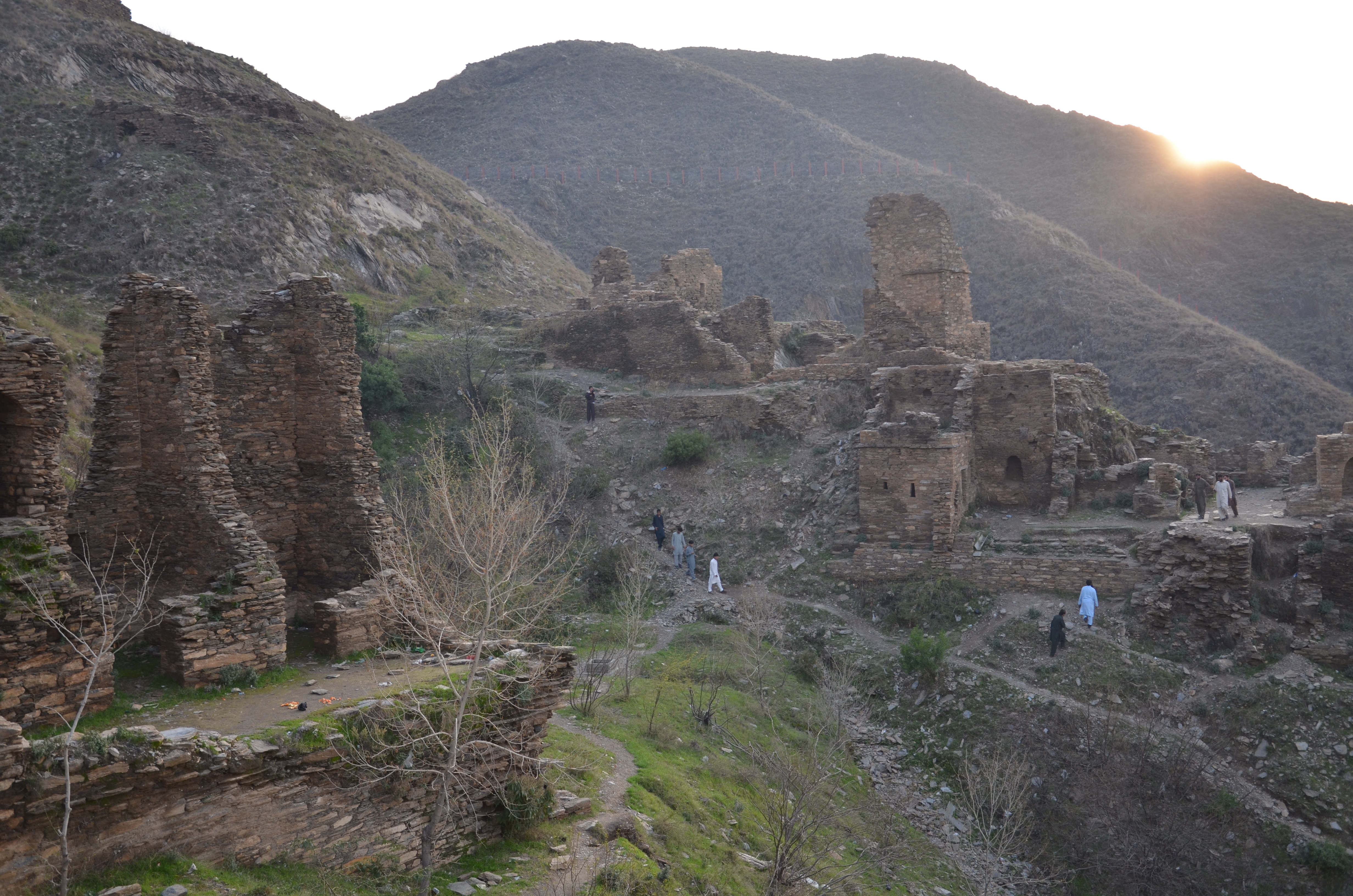 Photographed from over the top of the hill of three Stupas court yard, by zahid usman79